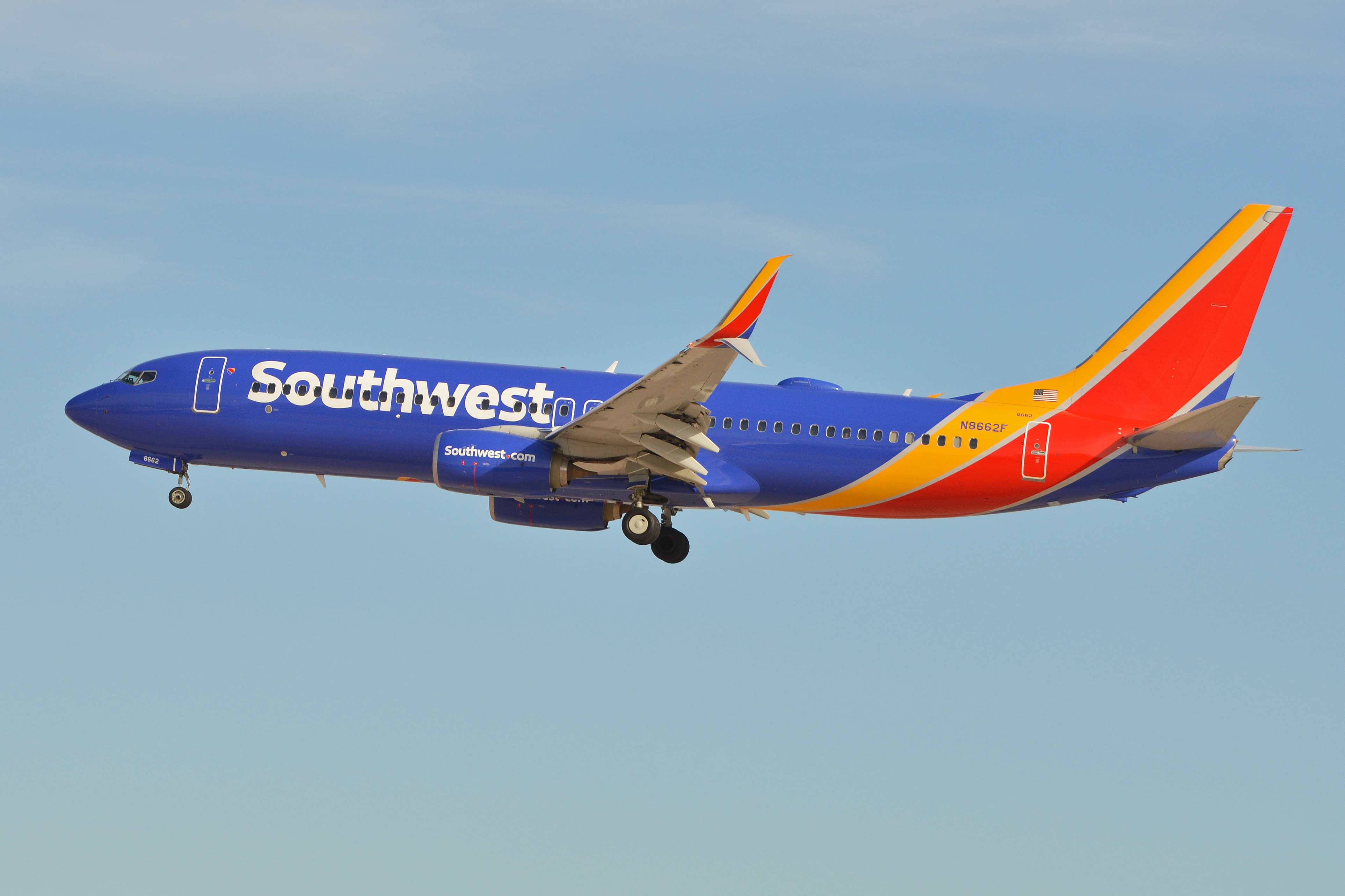 c/n 36936, l/n 5309. Built 2015. Seen arriving on flight SWA1710 from Indianapolis. McCarran International Airport, Las Vegas, NV, USA. 2nd March 2016.